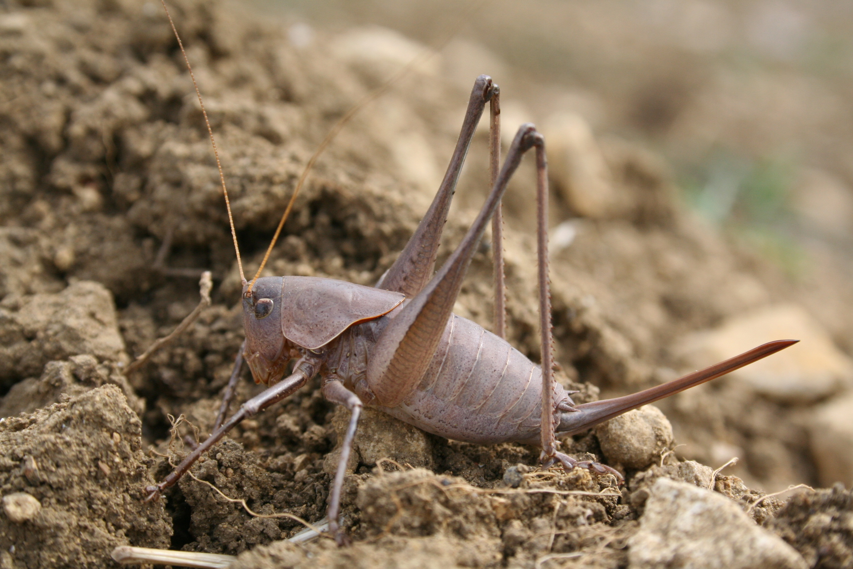 Thyreonotus corsicus, France, CONQUEYRAC (Gard)